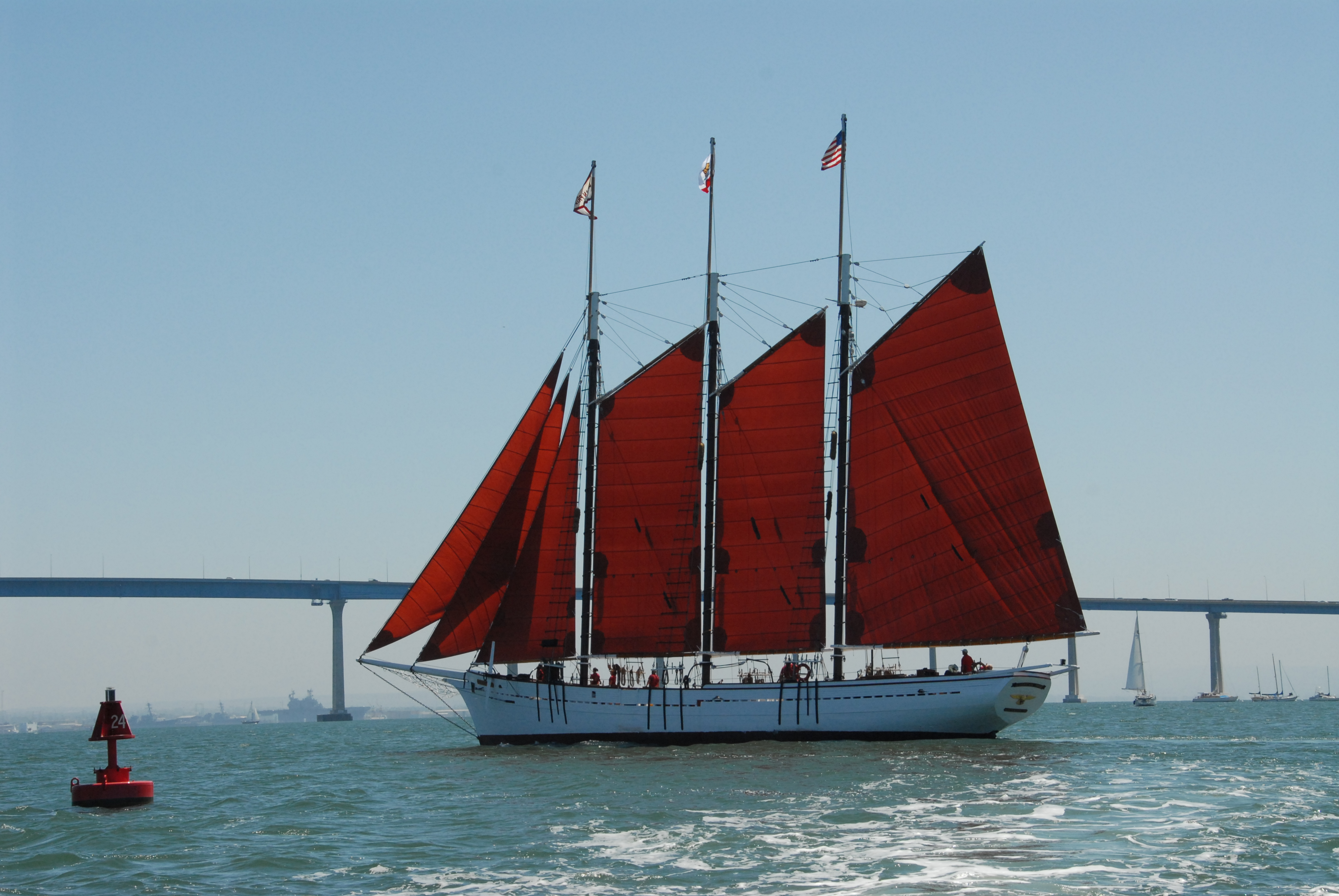 American Pride at the Tall Ships Parade of the Festival of Sail in San Diego Bay.